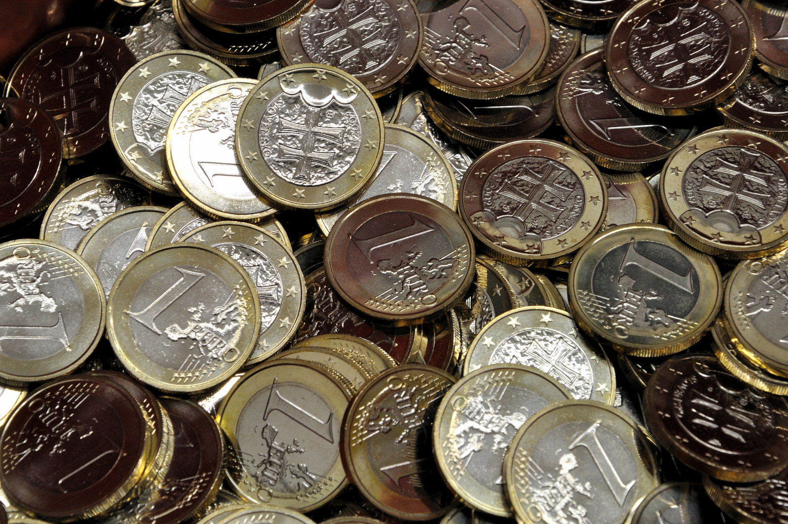 Kremnica Mint started to strike the Slovak eurocoins on 19. August 2009.